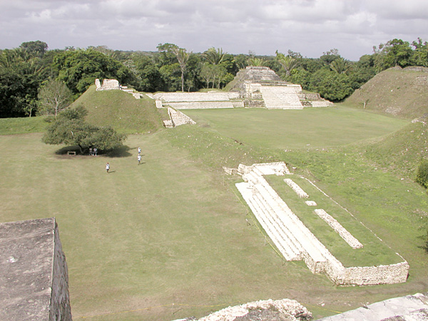 View of plaza from top of main temple, Altun Ha, Belize. Image taken by Clark Anderson/Aquaimages. Category:Altun Ha